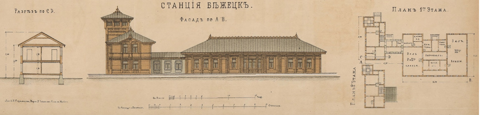 Railway station Bezhetsk. Russian Empire